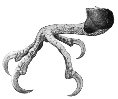 Ivory-billed Woodpecker , Campephilus principalis, detail of left foot; reproduction of watercolor(?)